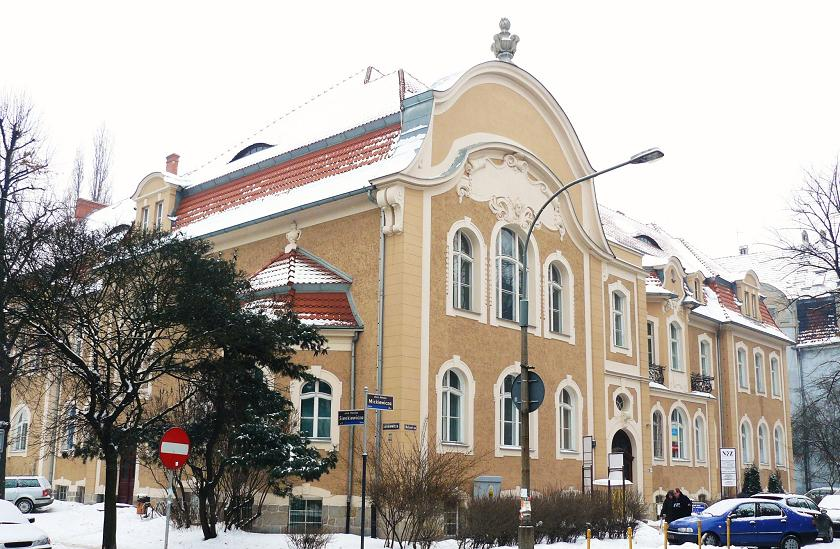 Before 1919 Landrature House in Poznan-Jezyce (Sienkiewicza/Mickiewicza Streets).